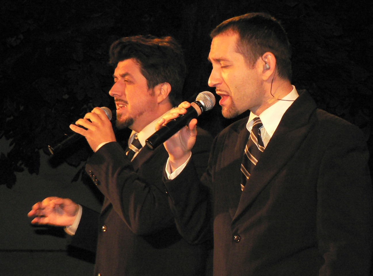 Ketten a Cotton Club Singersből